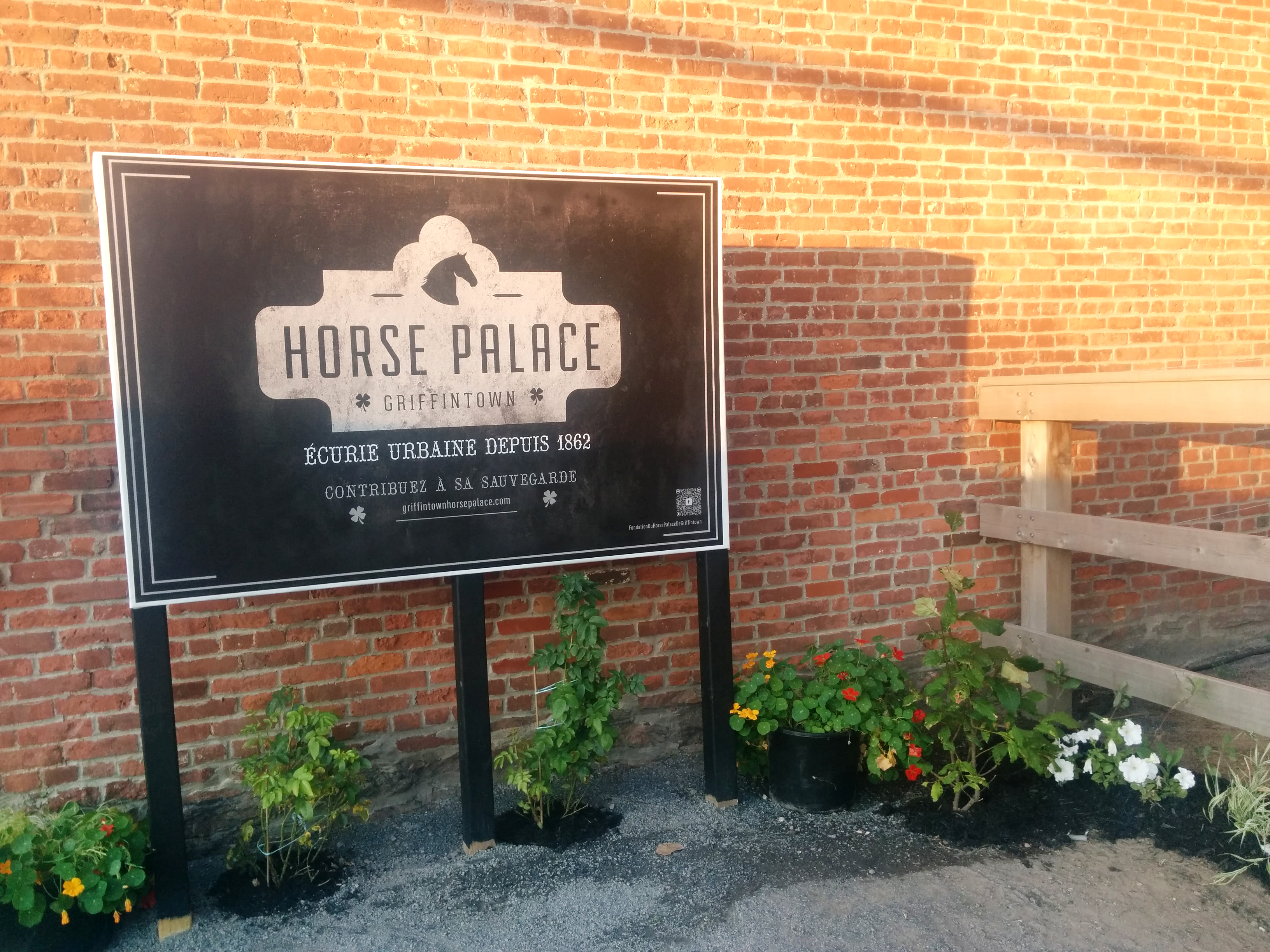 The Griffintown Horse Palace, historical stables in the Griffintown borough of Montréal. Built in 1862 at 1220-1226 Ottawa Street. Photo taken 24 August 2014.